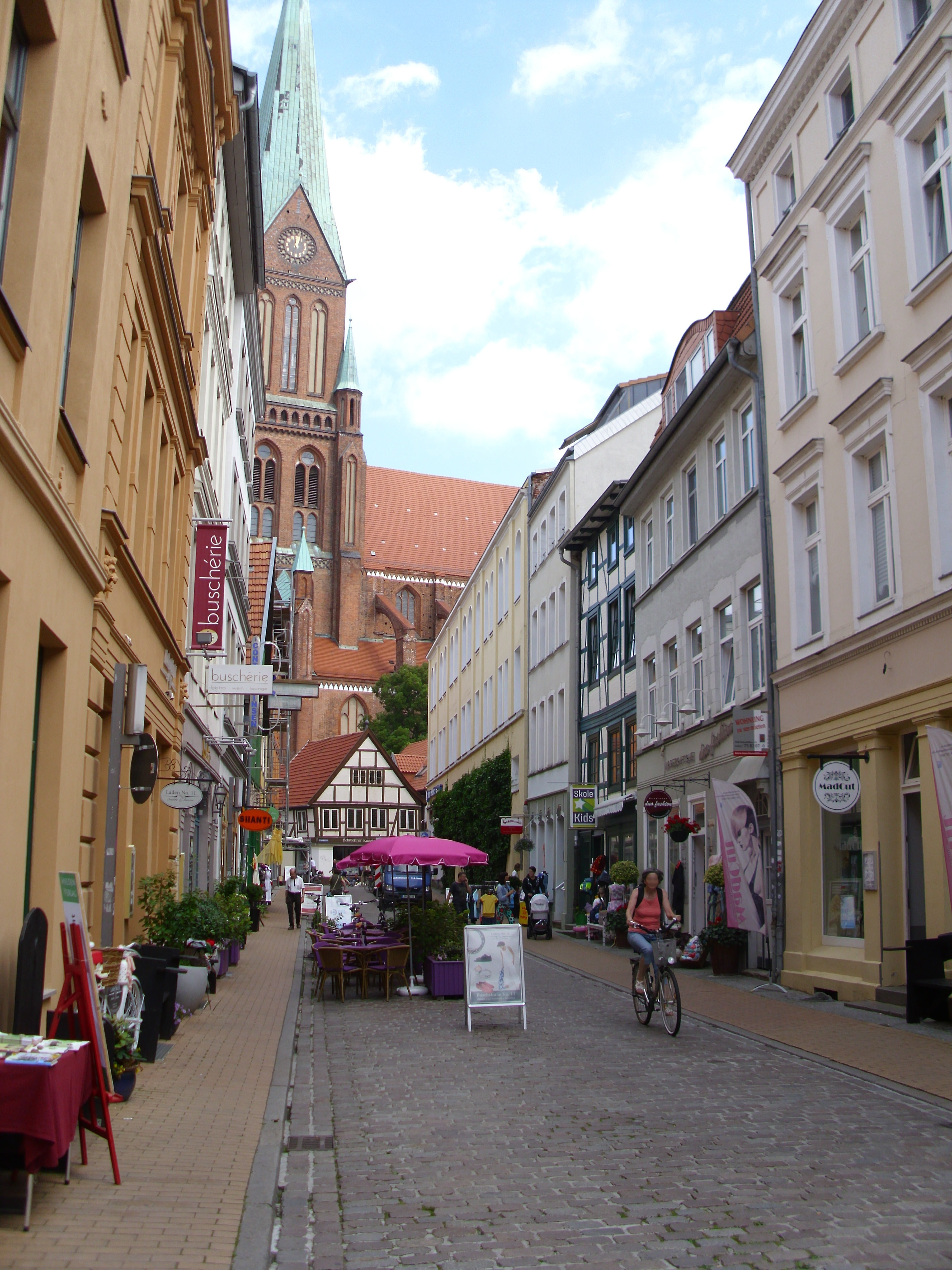 Street Buschstrasse with cobblestone pavement and bicyclist in Schwerin in Summer. Little shops on both sides. View to Schwerin Cathedral.